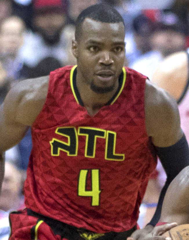 Hawks at Wizards 4/26/17